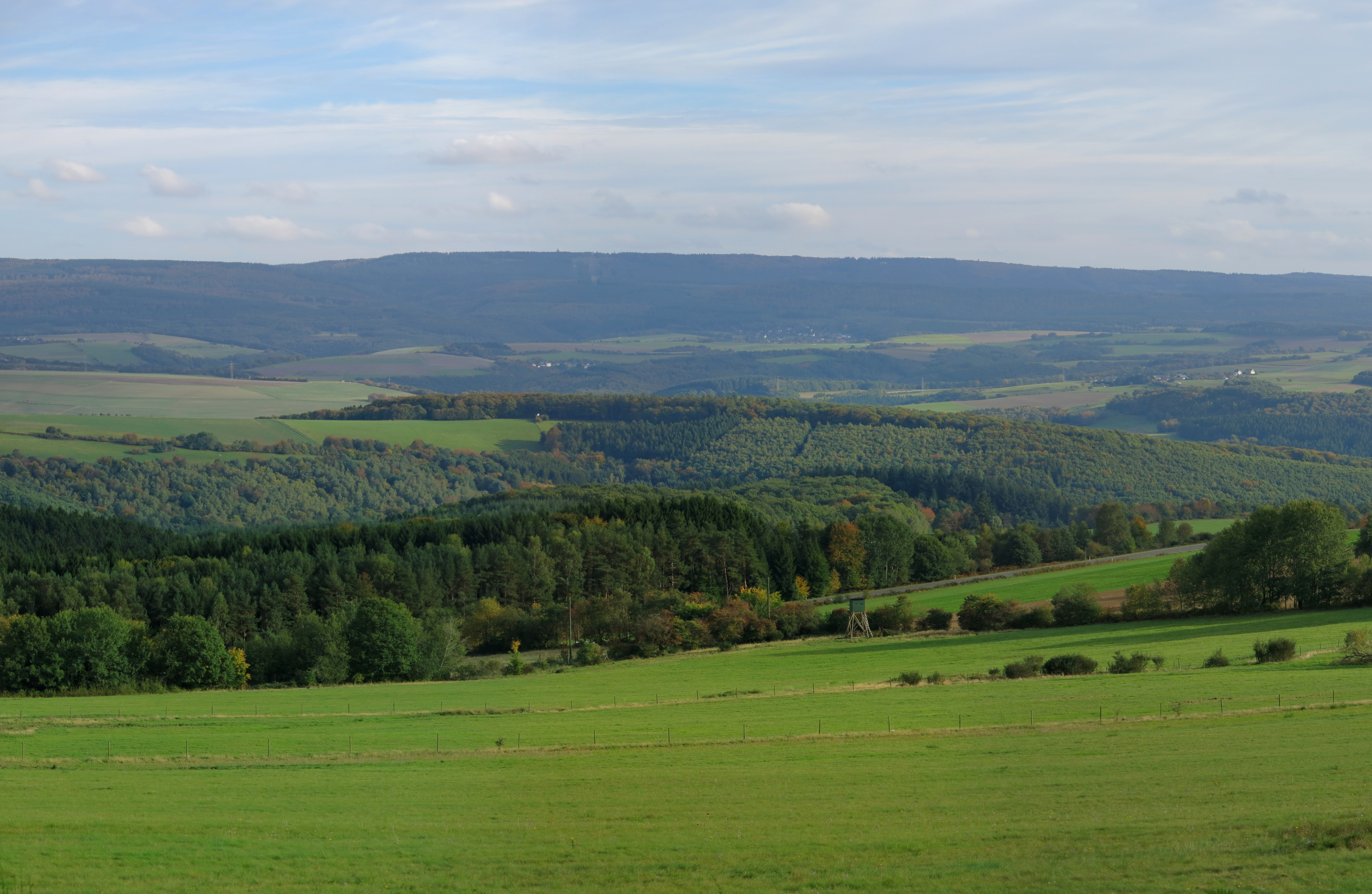 The Erbeskopf, highest monuntain in the Hunsrück range, seen from north-northwest.